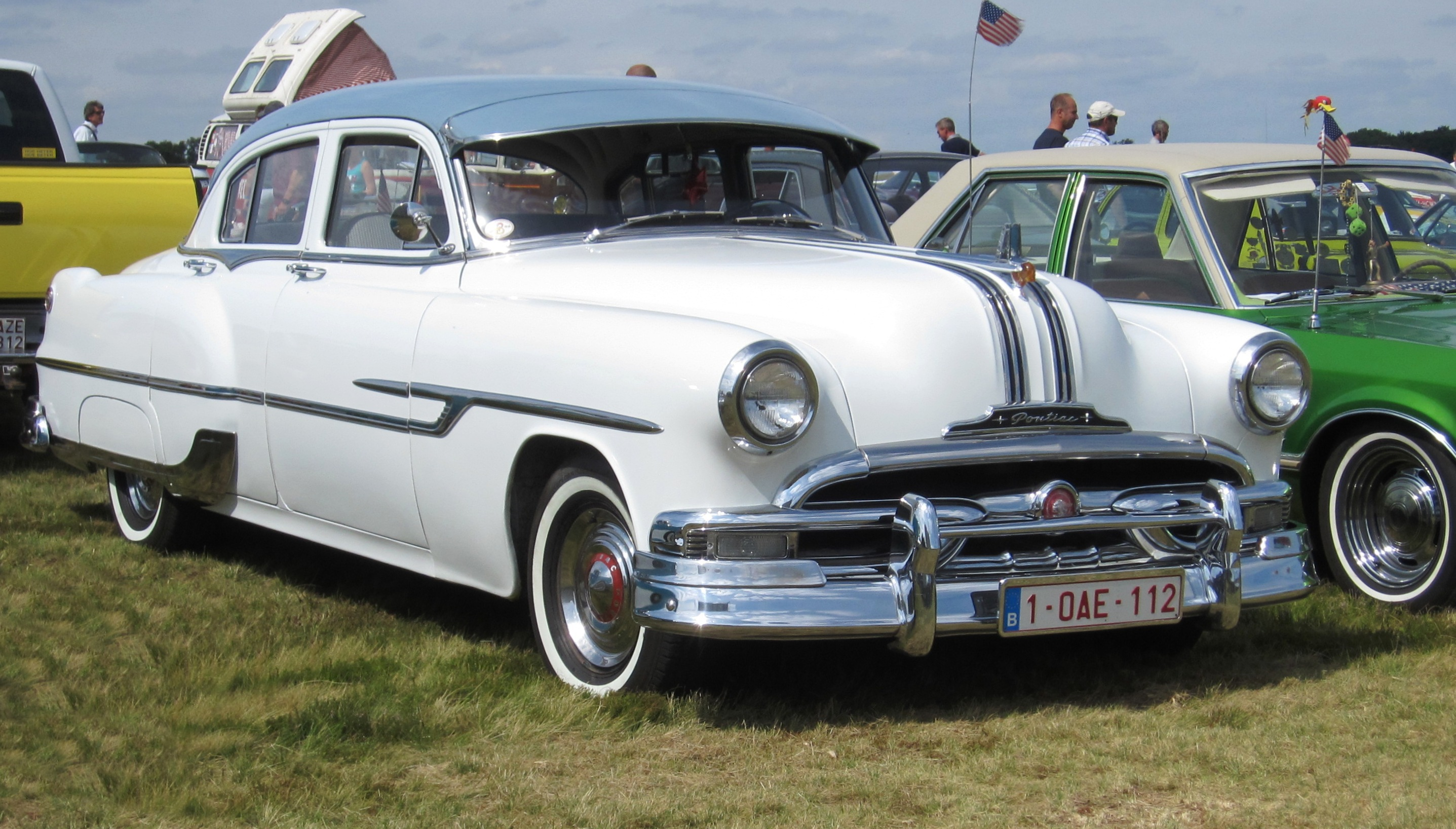 Pontiac Chieftain Deluxe sedan (1953)